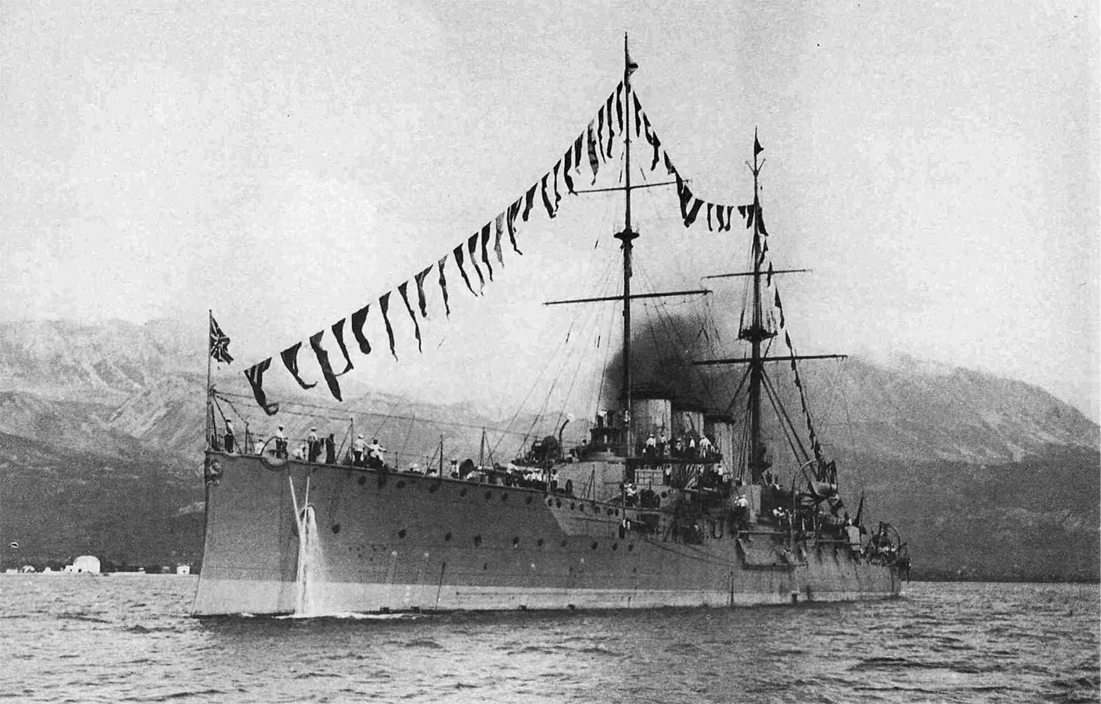 Arimoured cruiser Ryurik.